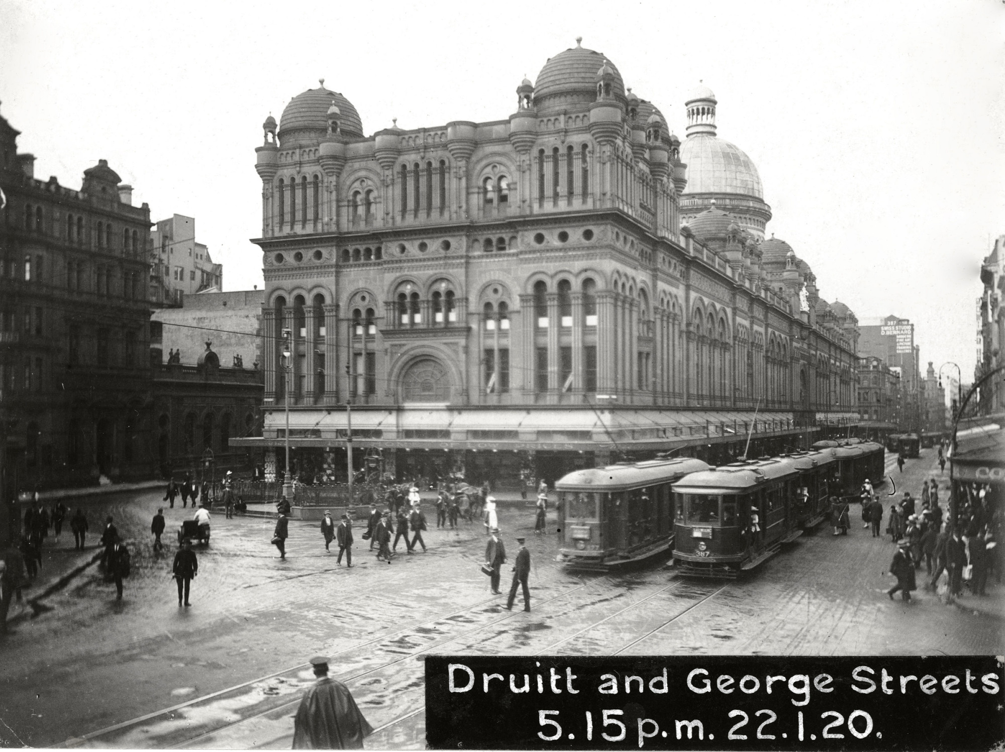 Trams operating on George Street, Sydney - showing the Queen Victoria Building Dated: 22/01/1920 Digital ID: 17420_a014_a0140001152 Rights: We'd love to hear from you if you use our photos. Many other photos in our collection are available to view and browse on our website using Photo Investigator. Construction of the Queen Victoria Building was completed in 1898. It occupies an entire city block. See City of Sydney and Wikipedia for more details.